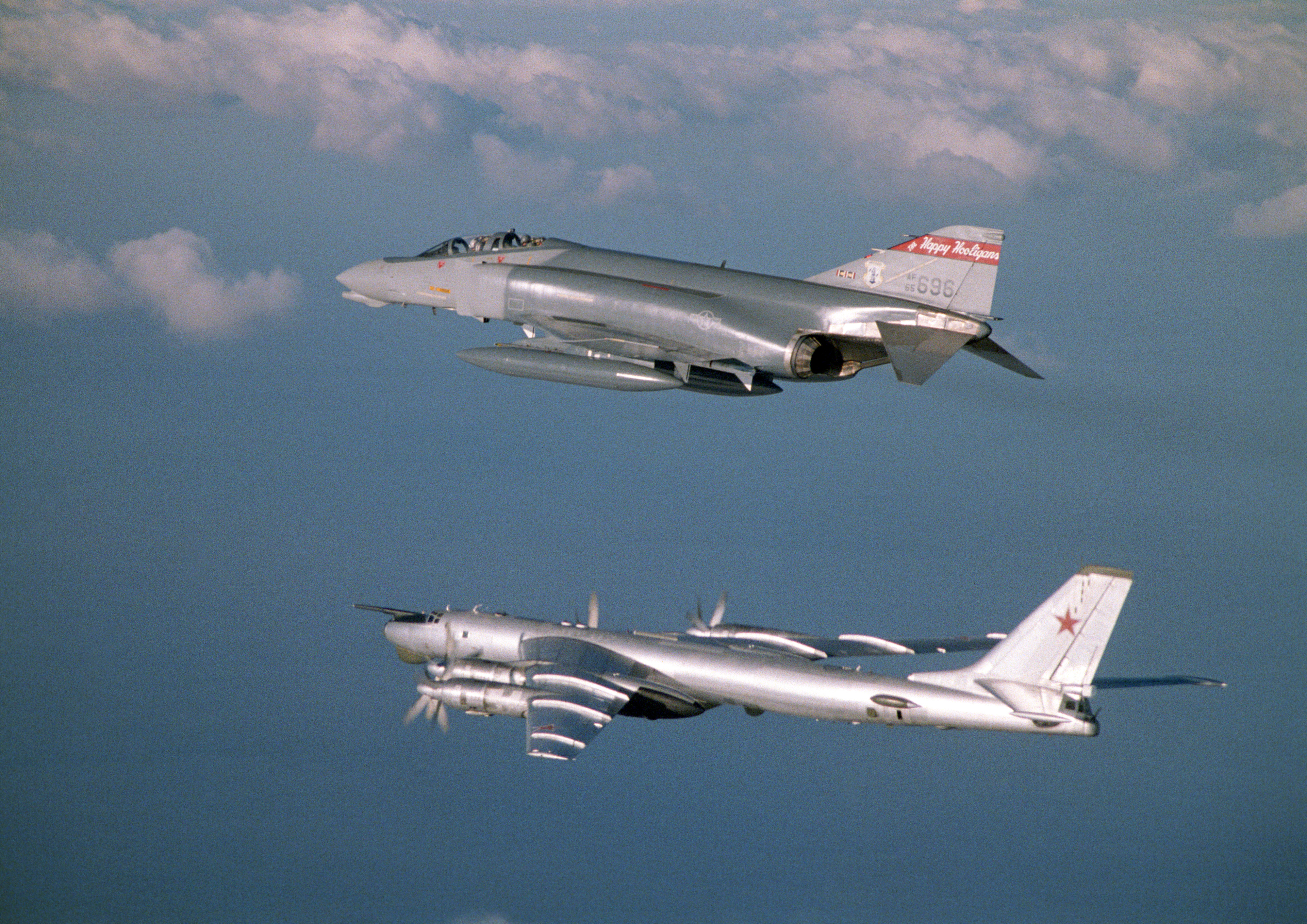 A U.S. Air Force McDonnell F-4D-28-MC Phantom II aircraft (s/n 65-0696) assigned to the 119th Fighter Group Happy Hooligans, North Dakota Air National Guard, intercepts a Soviet Tupolev Tu-95 Bear bomber aircraft over the Arctic Ocean, during a flight to Keflavik, Iceland in 1983. Eight Russian Tu-95s were intercepted by 119th FG pilots during the deployment to Iceland.